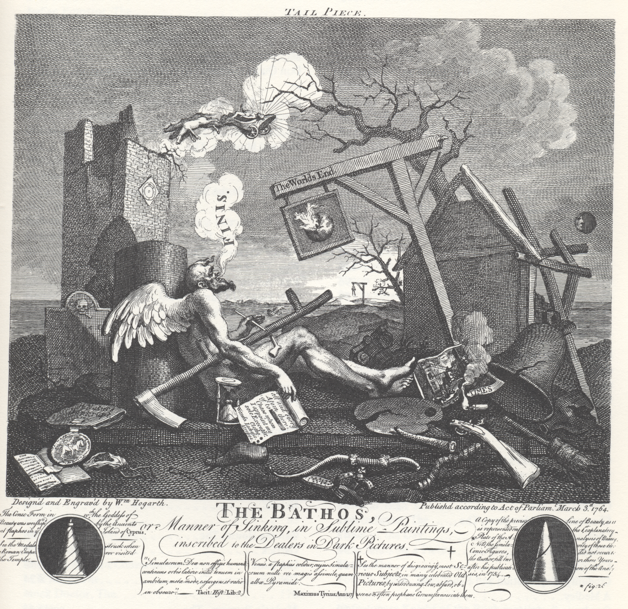 William Hogarth - The Bathos